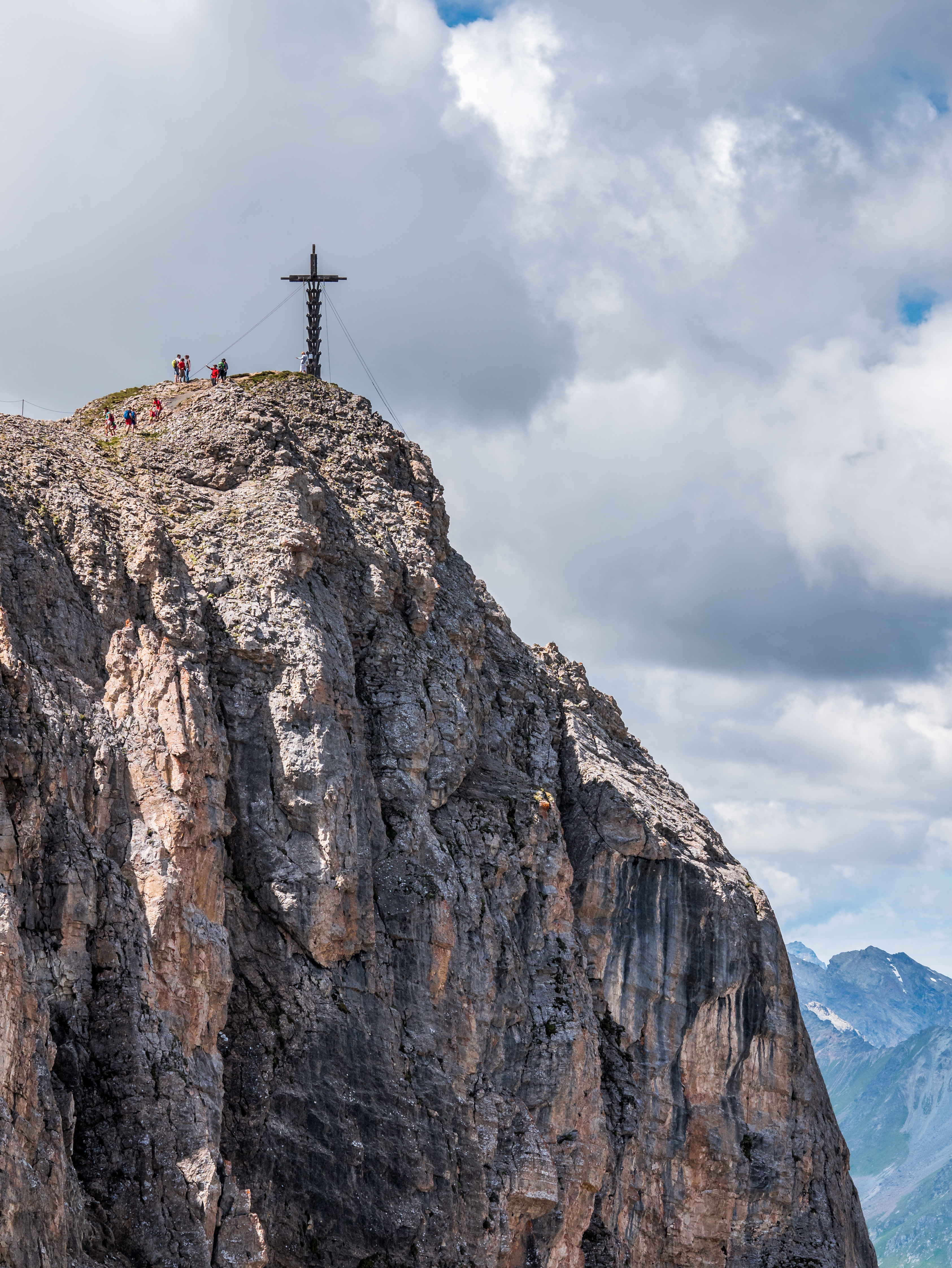 Summit of Greitspitze. Paznaun Valley, Tyrol, Austria